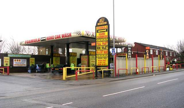 Foamula Hand Car Wash - Dick Lane